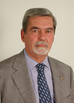 Photo of Ugo Martinat